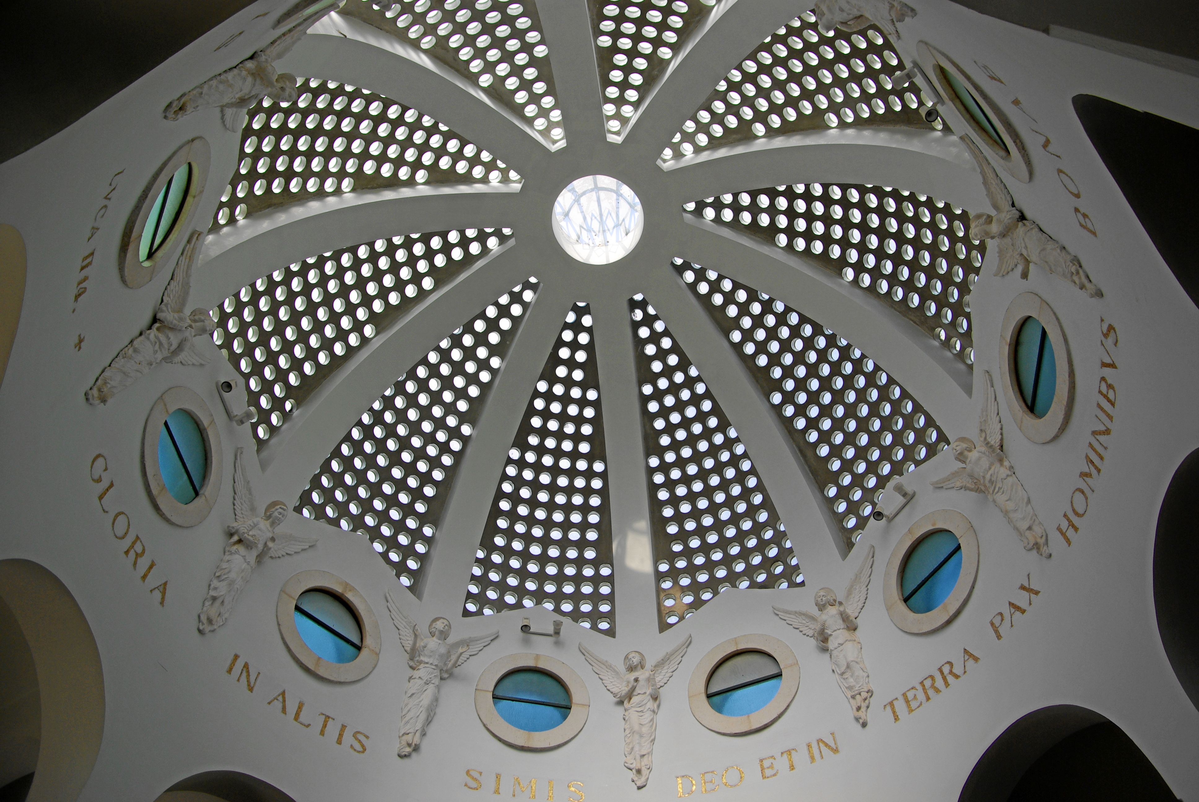 Bethlehem, Shepherds Field Chapel